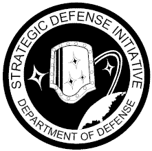 Strategic Defense Initiative logo (MDA is the Successor of SDI).